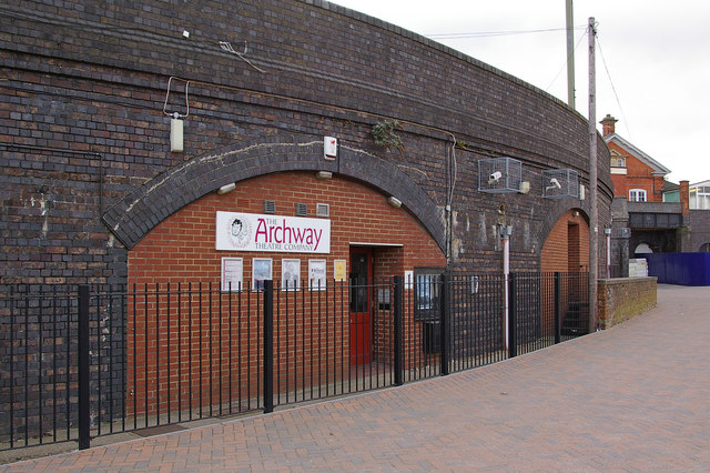 Archway Theatre The Archway Theatre Company traces its origins to a small group of enthusiasts who set up together in 1939, performing in local halls. In 1952 it moved into these arches under Victoria Road on its approach to crossing the railway by Horley Station, visible in the right background of this photo. Whilst it originally was wholly contained in the arches, in 1989 it expanded so that the stage now extends into an extension beyond the road. Even so, it is very much a small scale affair, with seating capacity for only 95. For further information